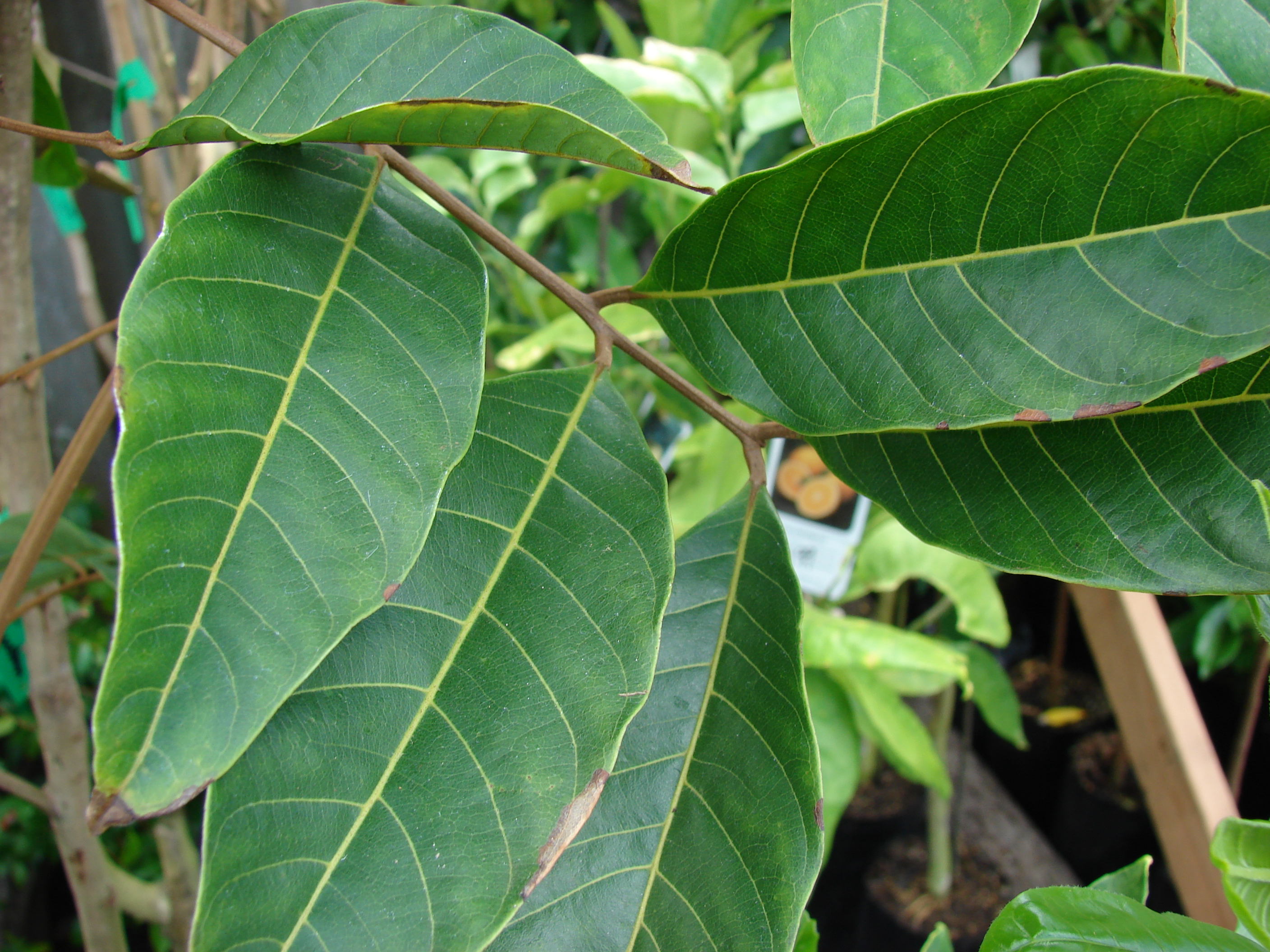 Nephelium lappaceum (leaves). Location: Maui, Kula Ace Hardware and Nursery